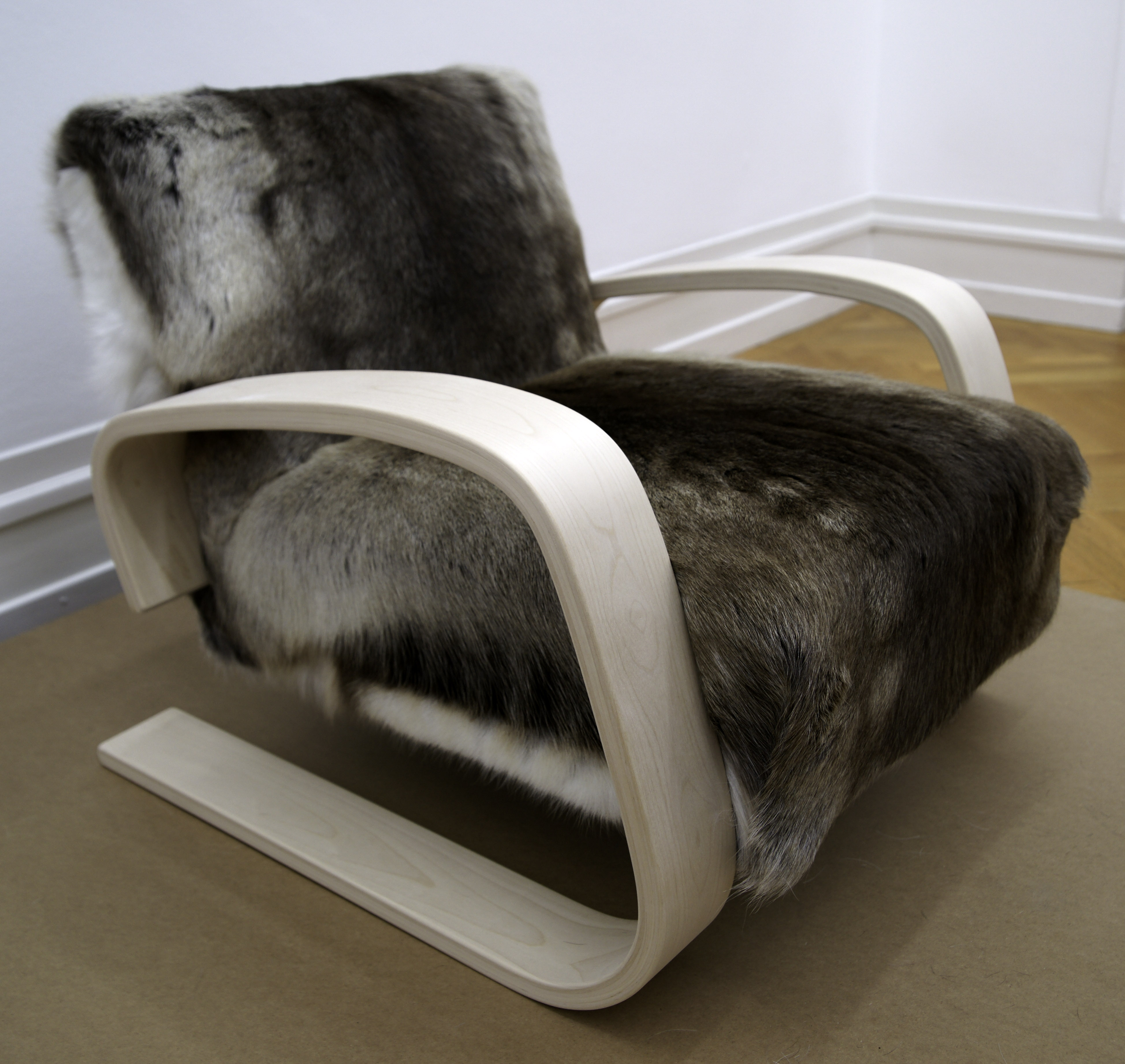 Armchair 400 ("Tank Chair") with reindeer fur